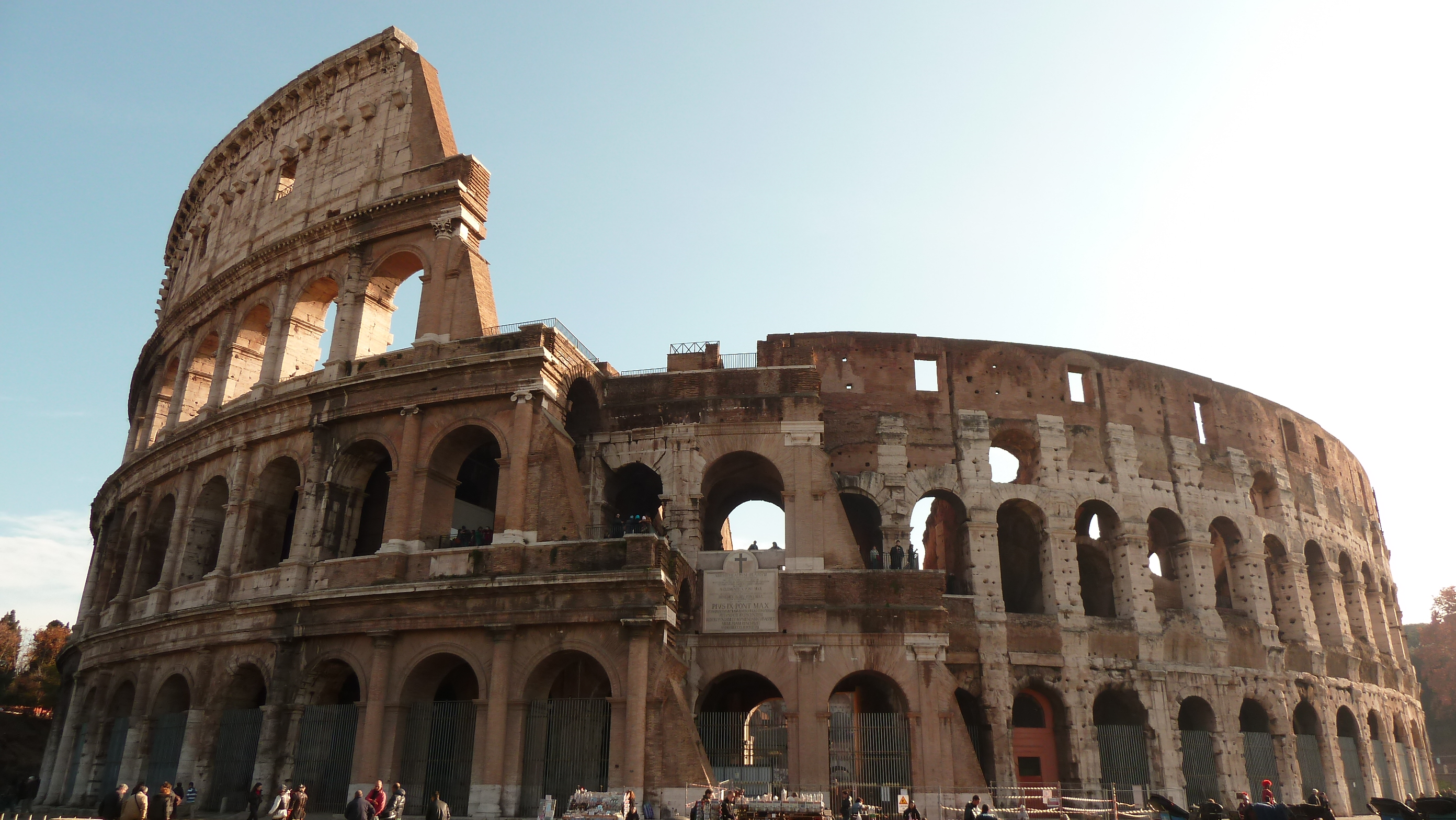 West facade of the Colosseo (among the most renowned symbols of the Roman Empire).